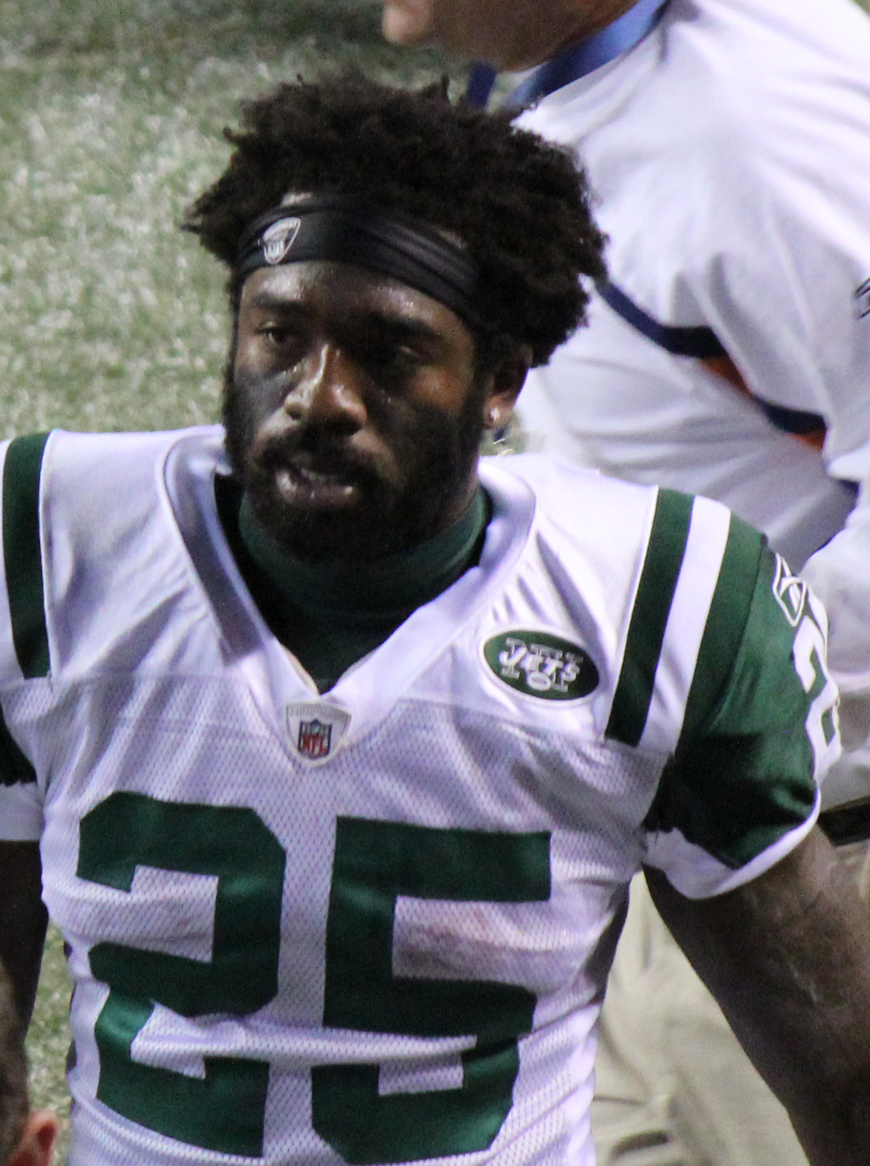 Joe McKnight, a player on the National Football League.